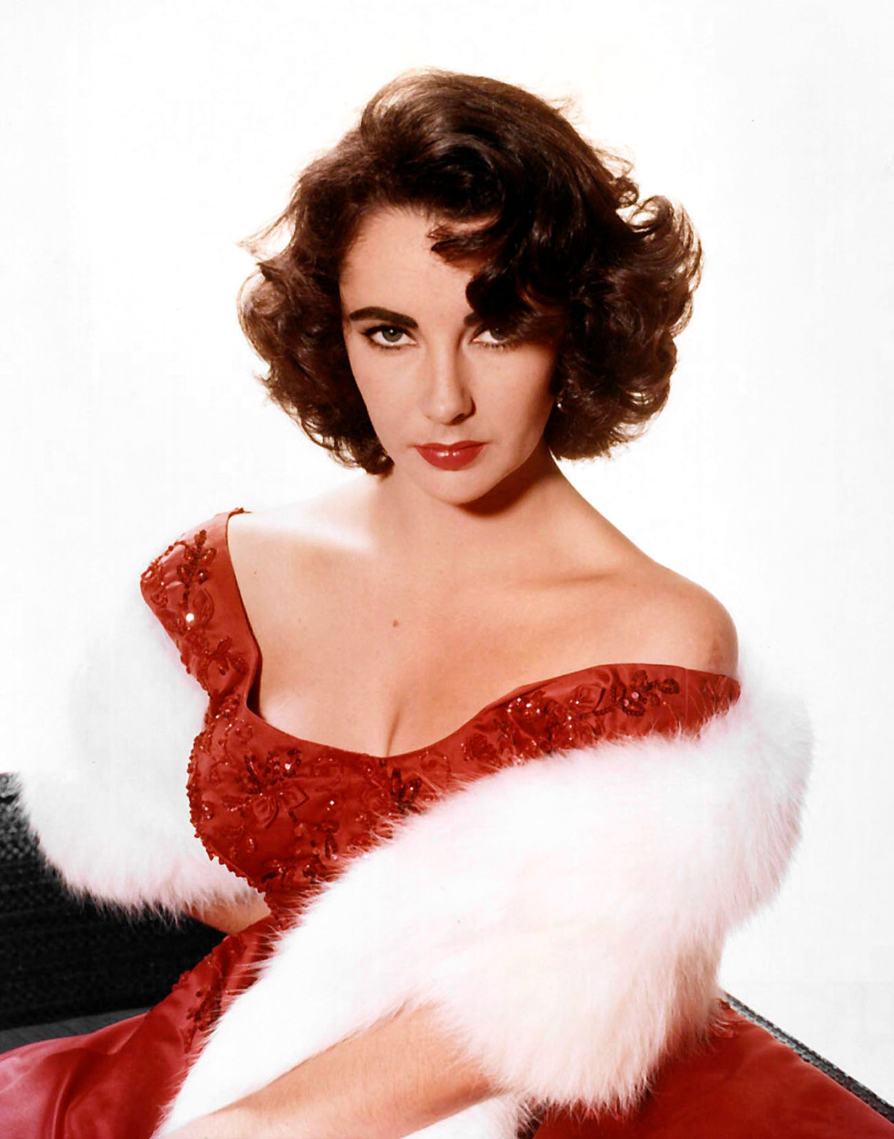 Studio publicity portrait of the American actress Elizabeth Taylor.